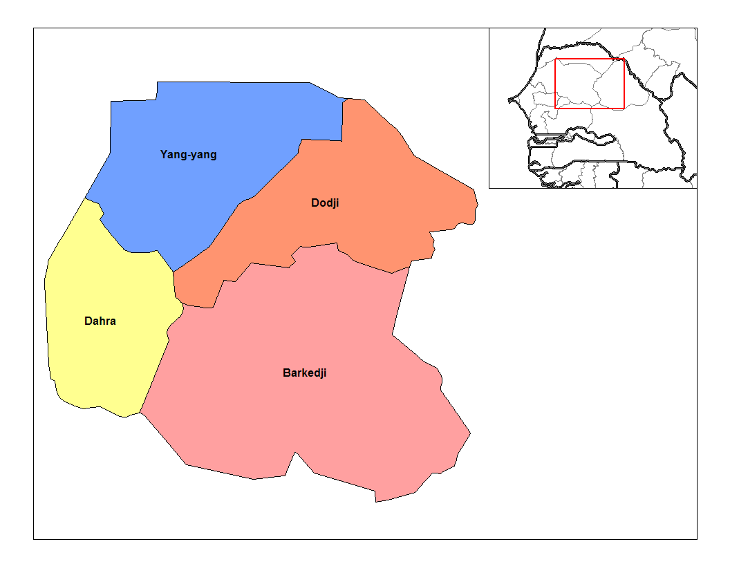 Map of the arrondissements of Linguere department in Senegal.